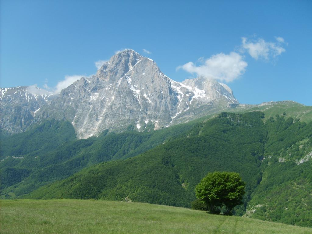 passeggiata verso il gran sasso da Forca di Valle